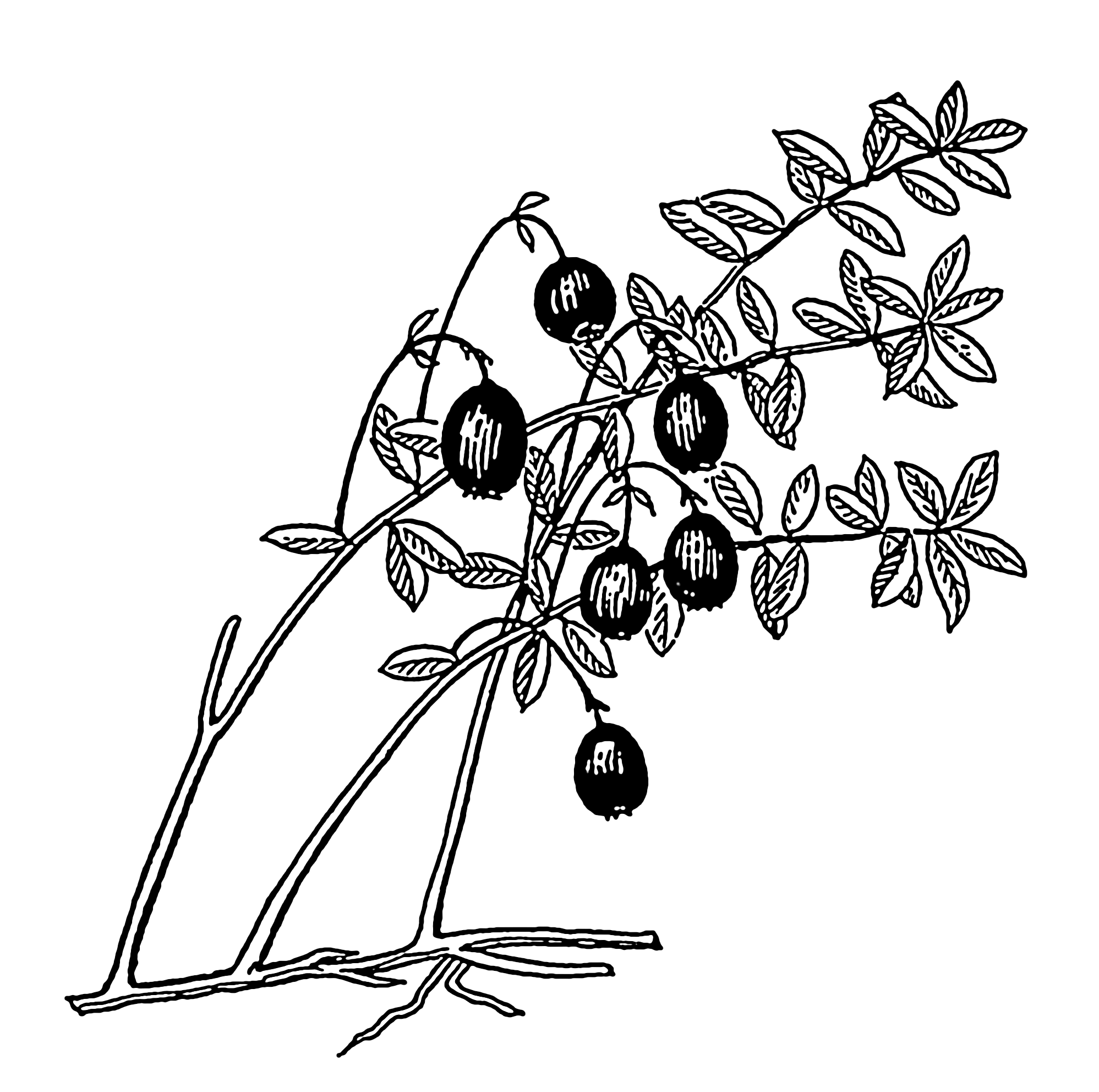 Line art drawing of a cranberry plant.